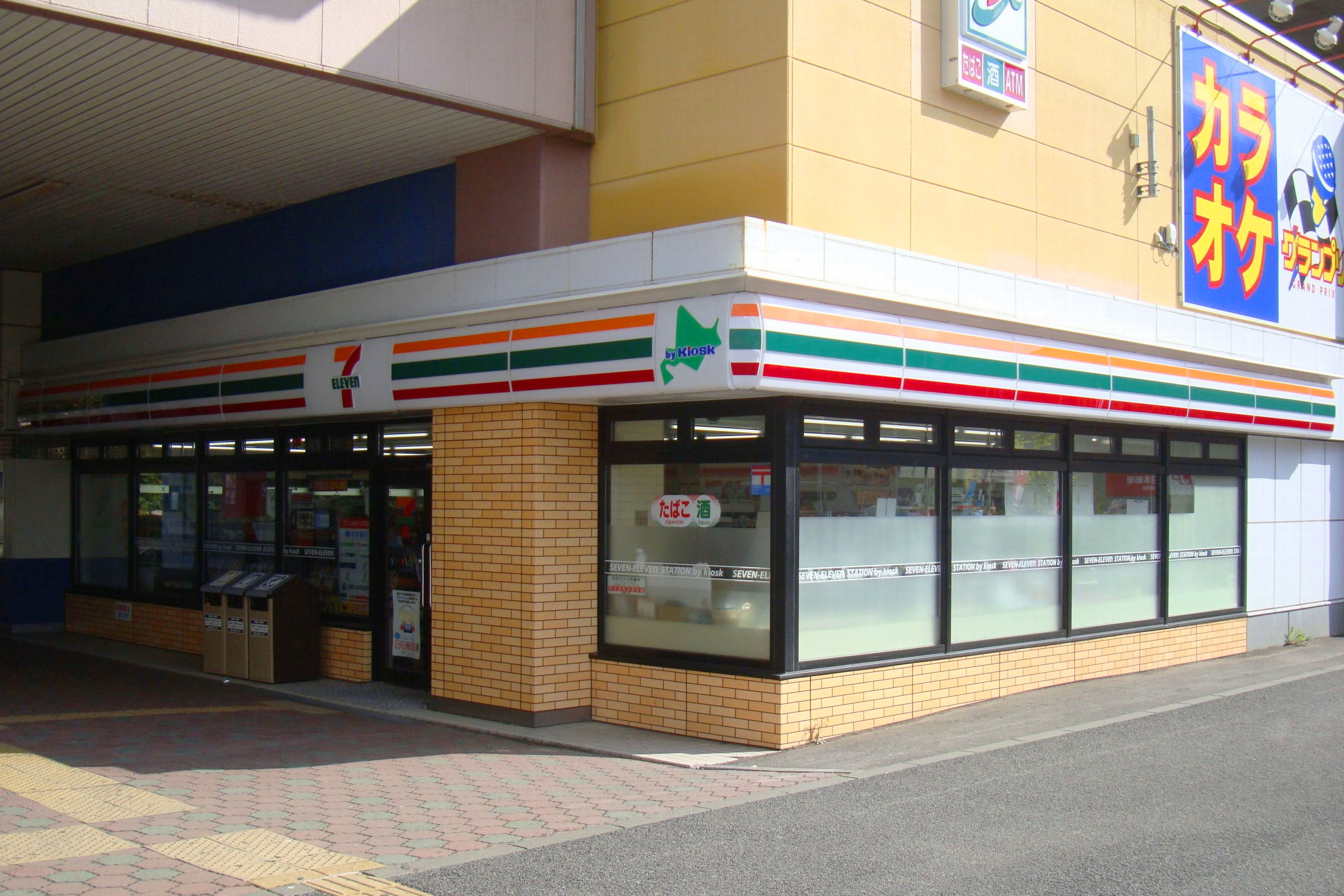 7-Eleven Hokkaidō ST Chitose